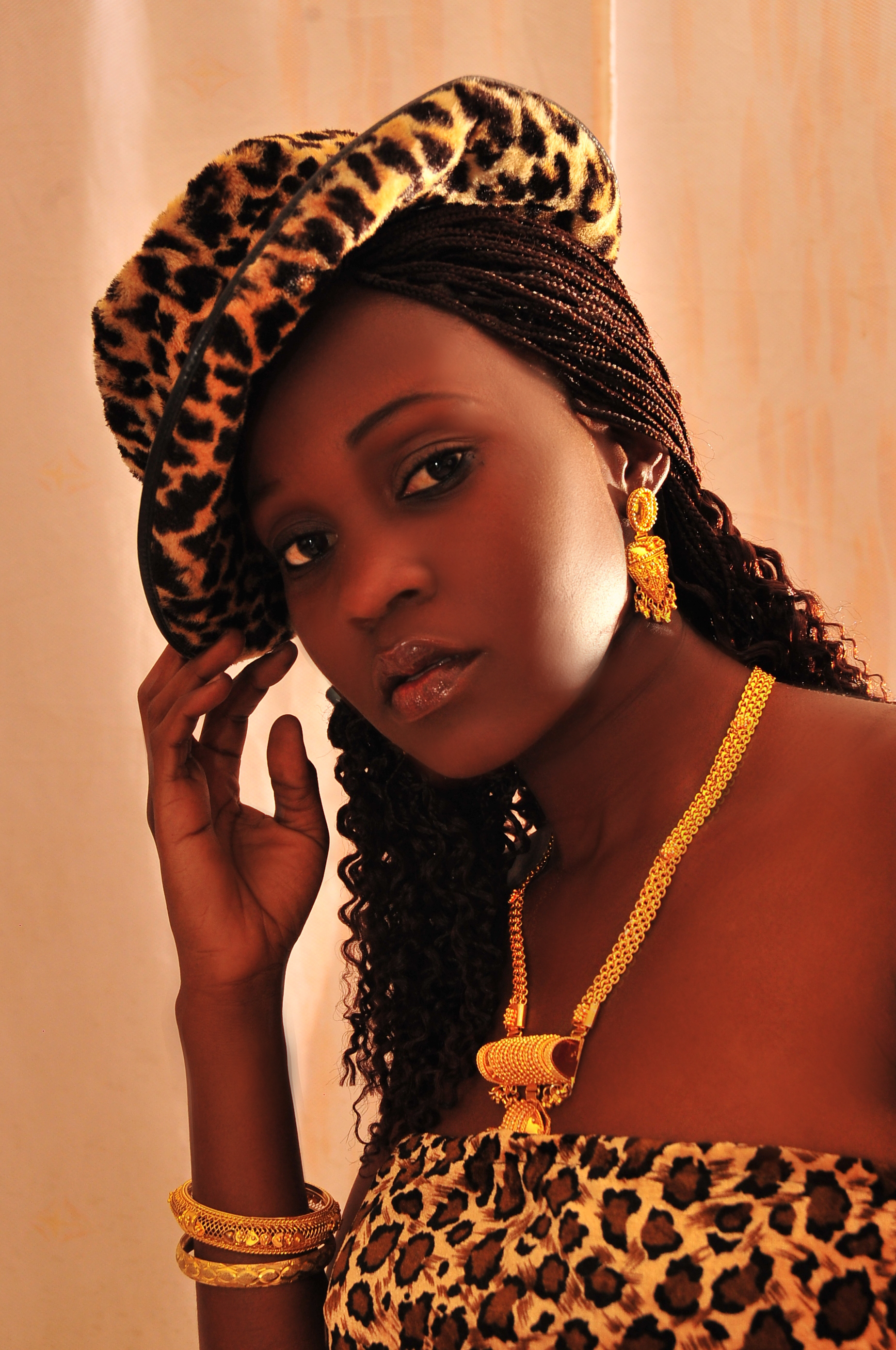 I've been given all these images by herself in order to upload them on commons for free. As I Wikipedia editor, I prefer to upload her all images into commons. You are allowed to do anything on these images. Kiswahili: Nimepewa picha hizi na yeye mwenyewe ili nizipakie katika commons bure. Nikiwa kama mhariri wa Wikipedia, nimependelea zaidi kupakia picha zake kwenye commons. Unaruhusiwa kufanya chochote katika picha hizi.